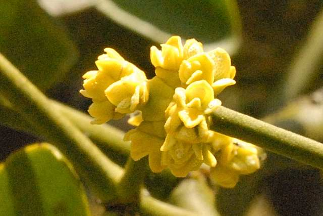 Viscum album from Commanster, Belgian High Ardennes .